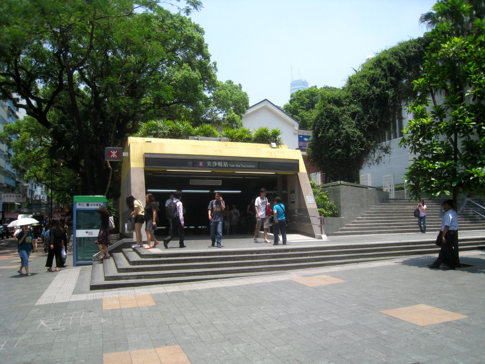 MTR Tsim Sha Tsui Station Exit A1 尖沙咀站A1出口